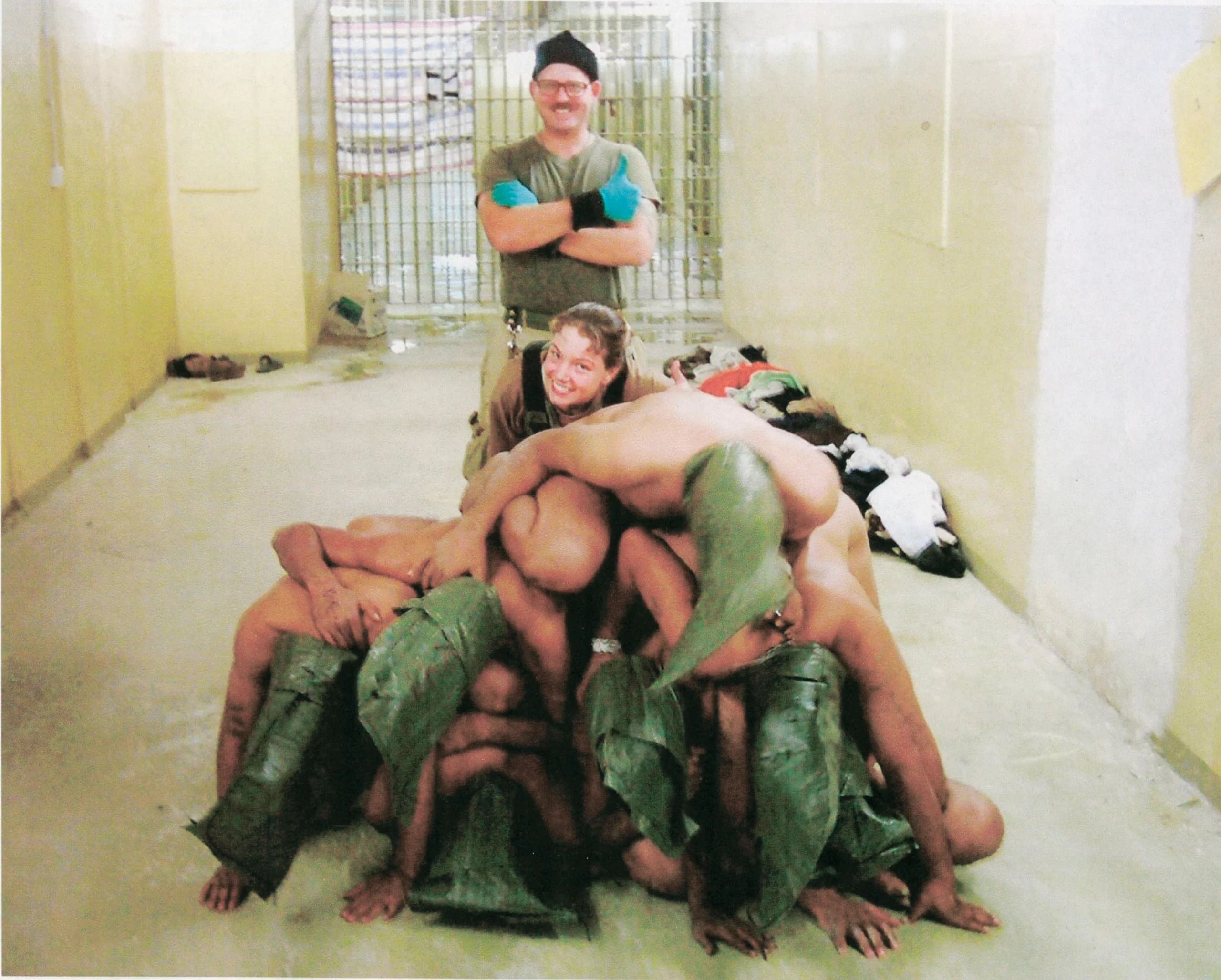 11:50 p.m., Nov. 7, 2003. CPL GRANER and SPC HARMAN pose for picture behind the nude detainees. SOLDIER(S): CPL GRANER and SPC HARMAN. All caption information is taken directly from CID materials. U.S. Army / Criminal Investigation Command (CID). Seized by the U.S. Government. Note: Spc. Charles Graner and Spc. Sabrina Harman with naked and hooded prisoners who were forced to form a human pyramid – a photo from Abu Ghraib prison in Iraq which was a part of the evidence used against US soldiers accused of abusing and humiliating inmates.